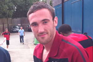 Photo taken by myself following a friendly match between Tamworth and Aberdeen.